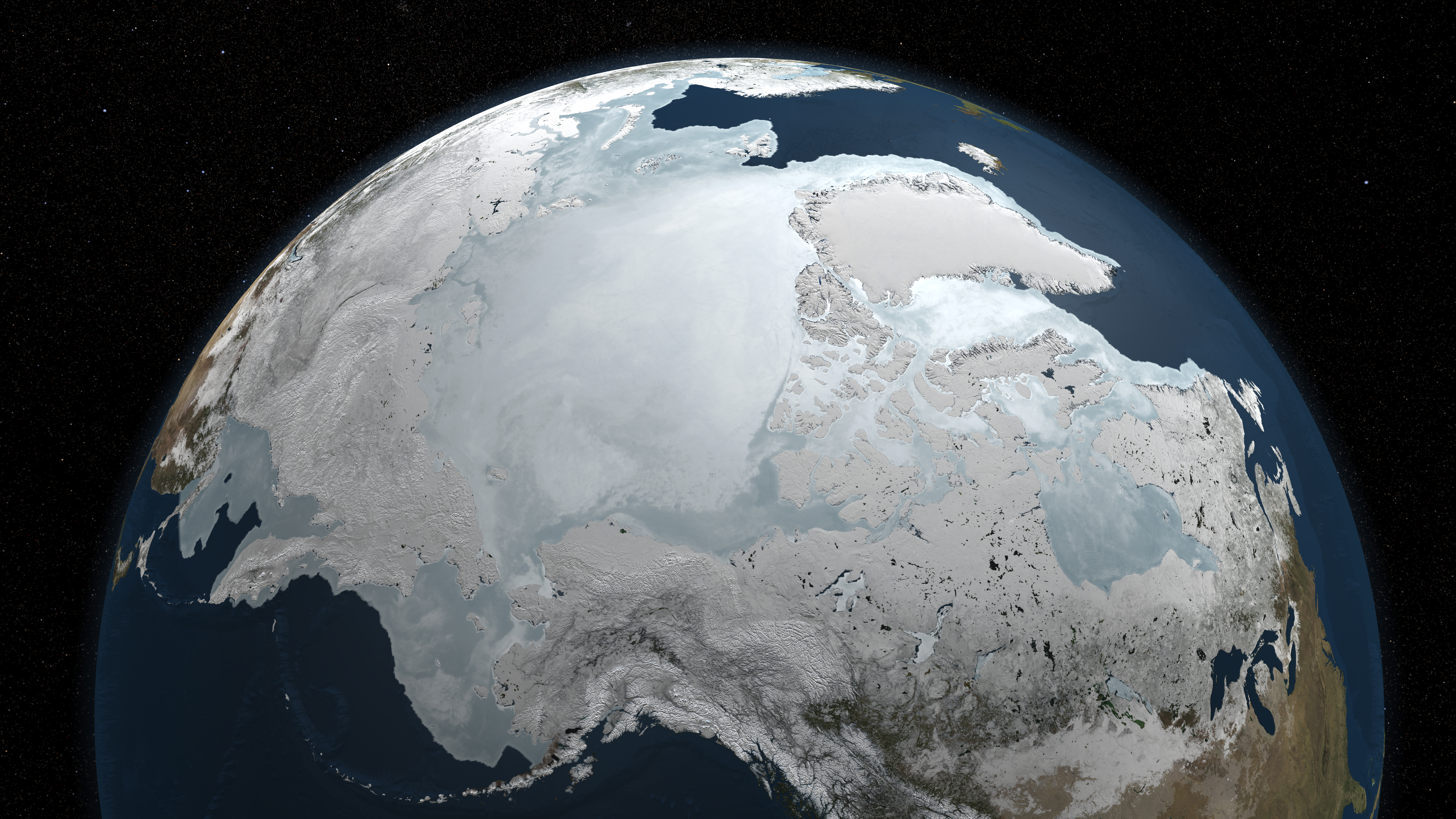 NASA image of the Arctic sea ice with a star background on March 6, 2010. Credit: NASA/Goddard Space Flight Center Scientific Visualization Studio. The Blue Marble data is courtesy of Reto Stockli (NASA/GSFC). To read a story related to this image go to: To see a video of this image go to: To learn more abou this image go to: NASA Goddard Space Flight Center is home to the nation's largest organization of combined scientists, engineers and technologists that build spacecraft, instruments and new technology to study the Earth, the sun, our solar system, and the universe.